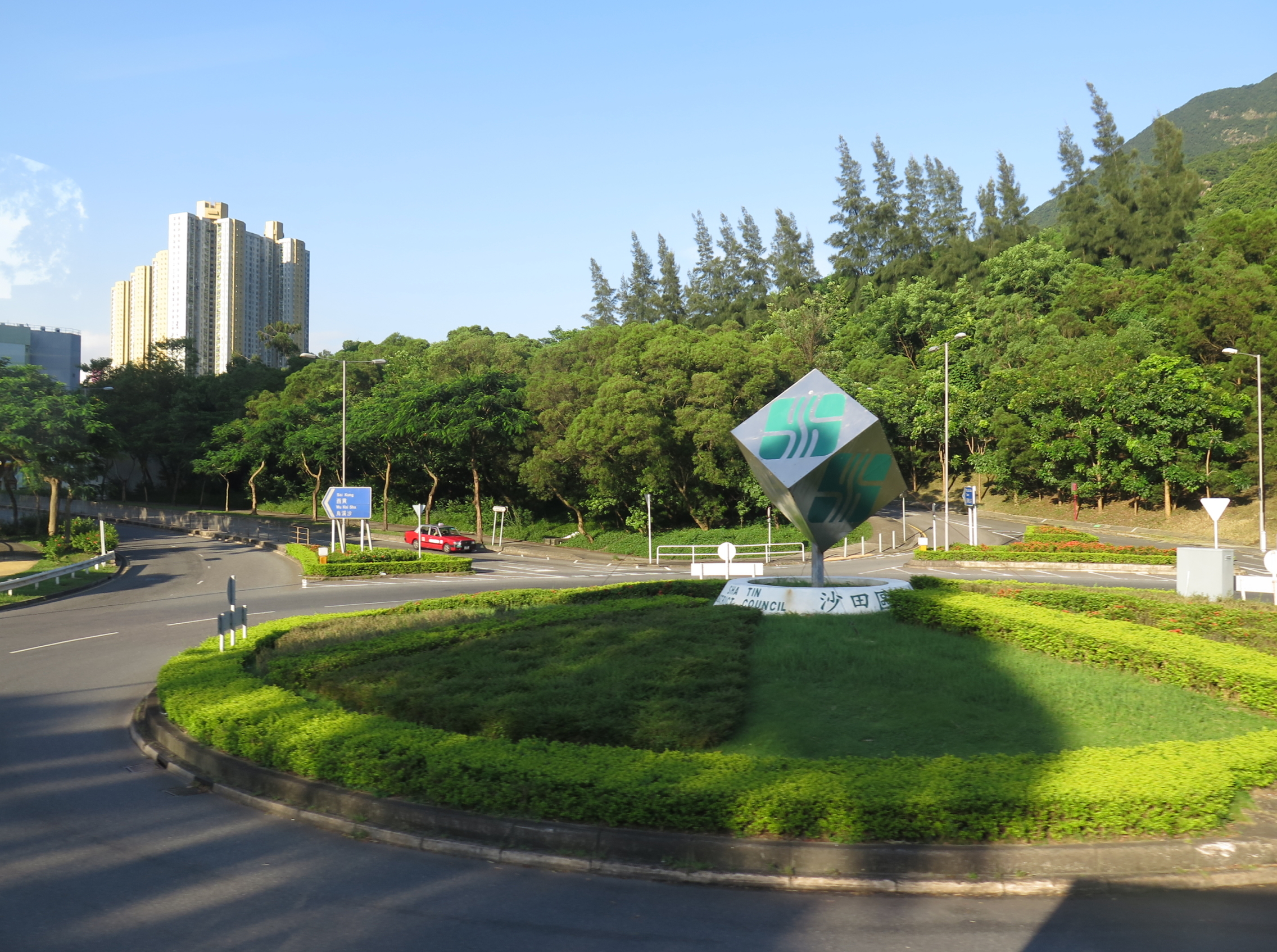 Ma On Shan Road Circuit